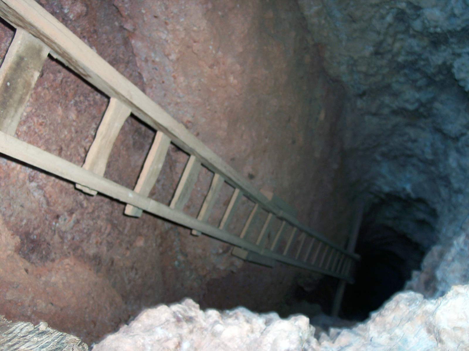 The Black Mountains - Vertical Mine Shaft